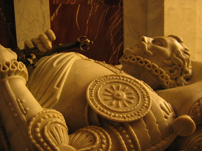 The tomb of Don John of Austria in San Lorenzo de El Escorial, (Spain). Image taken personally by en.wiki user User:Mhardcastle.